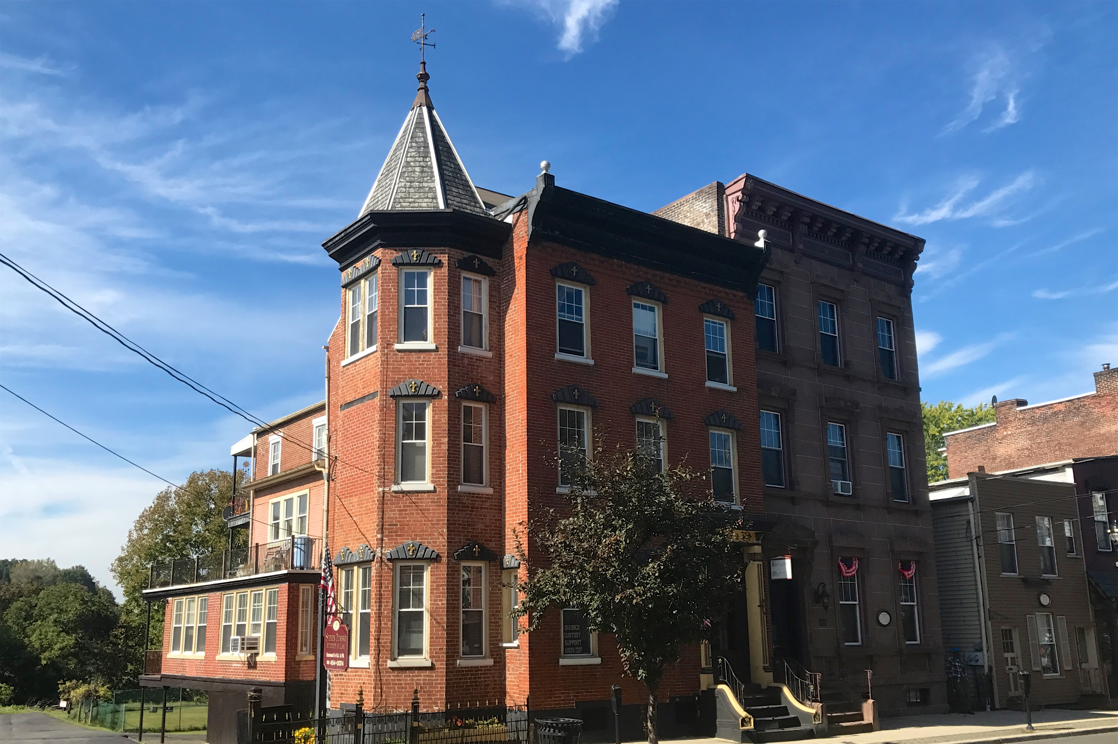 The Lander-Stewart Mansion and Stites Building in Phillipsburg, New Jersey. The building on the right is 102 South Main Street, the Lander-Stewart Mansion, and on the left is 104 South Main Street, the Stites Building. Also, key contributing properties #46 and #47 of the Phillipsburg Commercial Historic District.